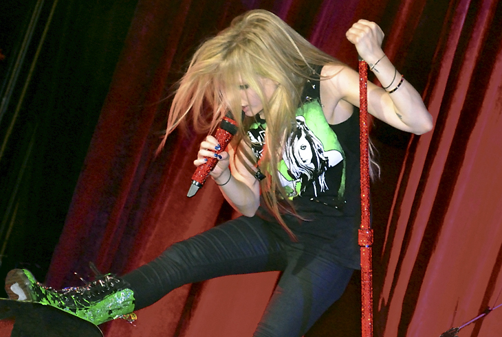 Avril Lavigne singing into her mic with one leg on a monitor during the Brazil leg of her Black Star Tour on August 2, 2011. Concert venue was the Marista Hall in Belo Horizonte.